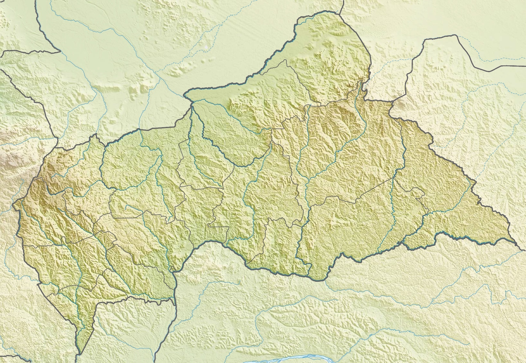 Physical location map of the Central African Republic Equirectangular projection, N/S stretching 101 %. Geographic limits of the map: N: 11.3° N S: 2.0° N W: 14.1° E E: 27.7° E